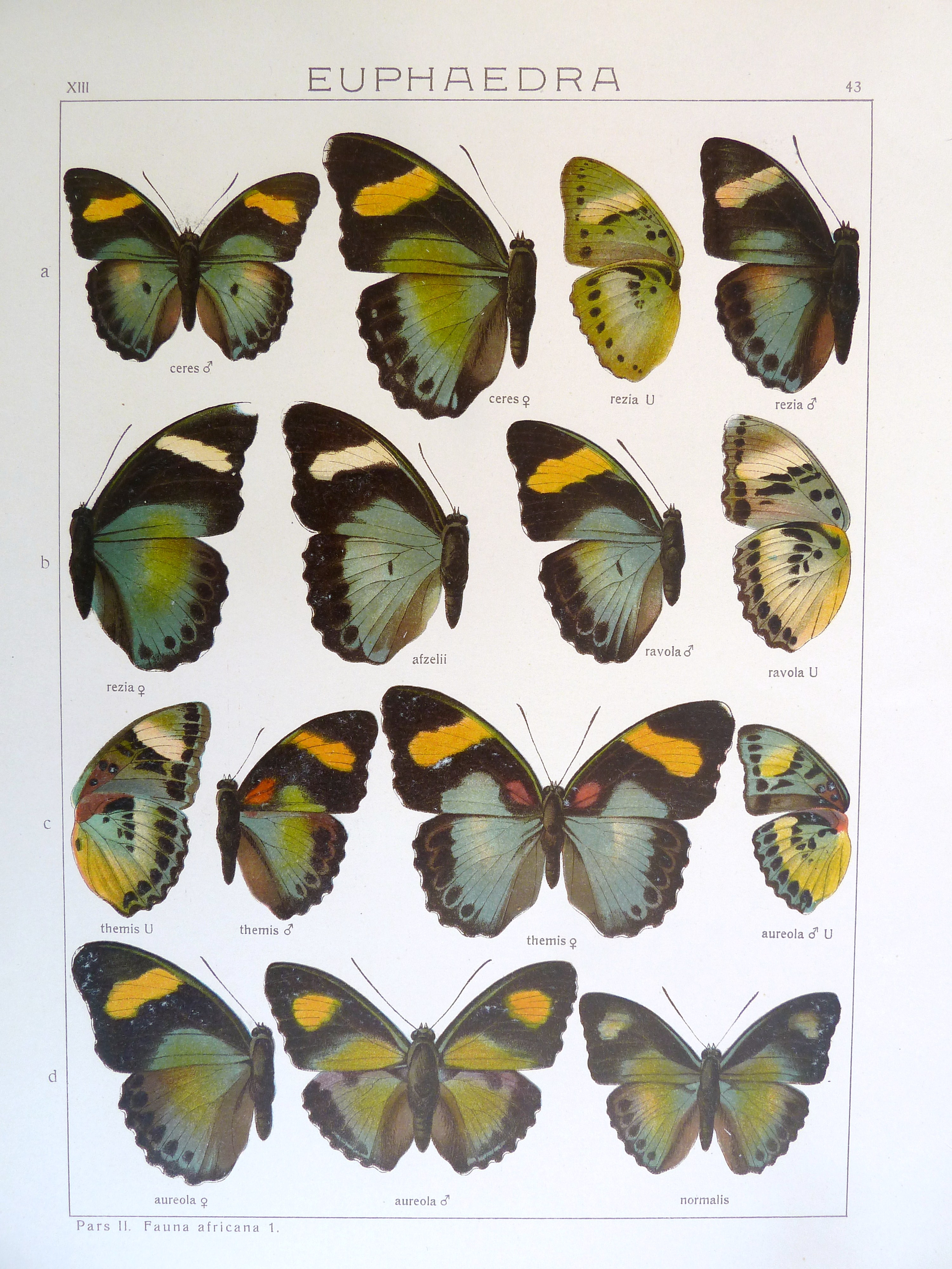 Adalbert Seitz Die Gross-Schmetterlinge der Erde 13: Die Afrikanischen Tagfalter. Plate XIII 43